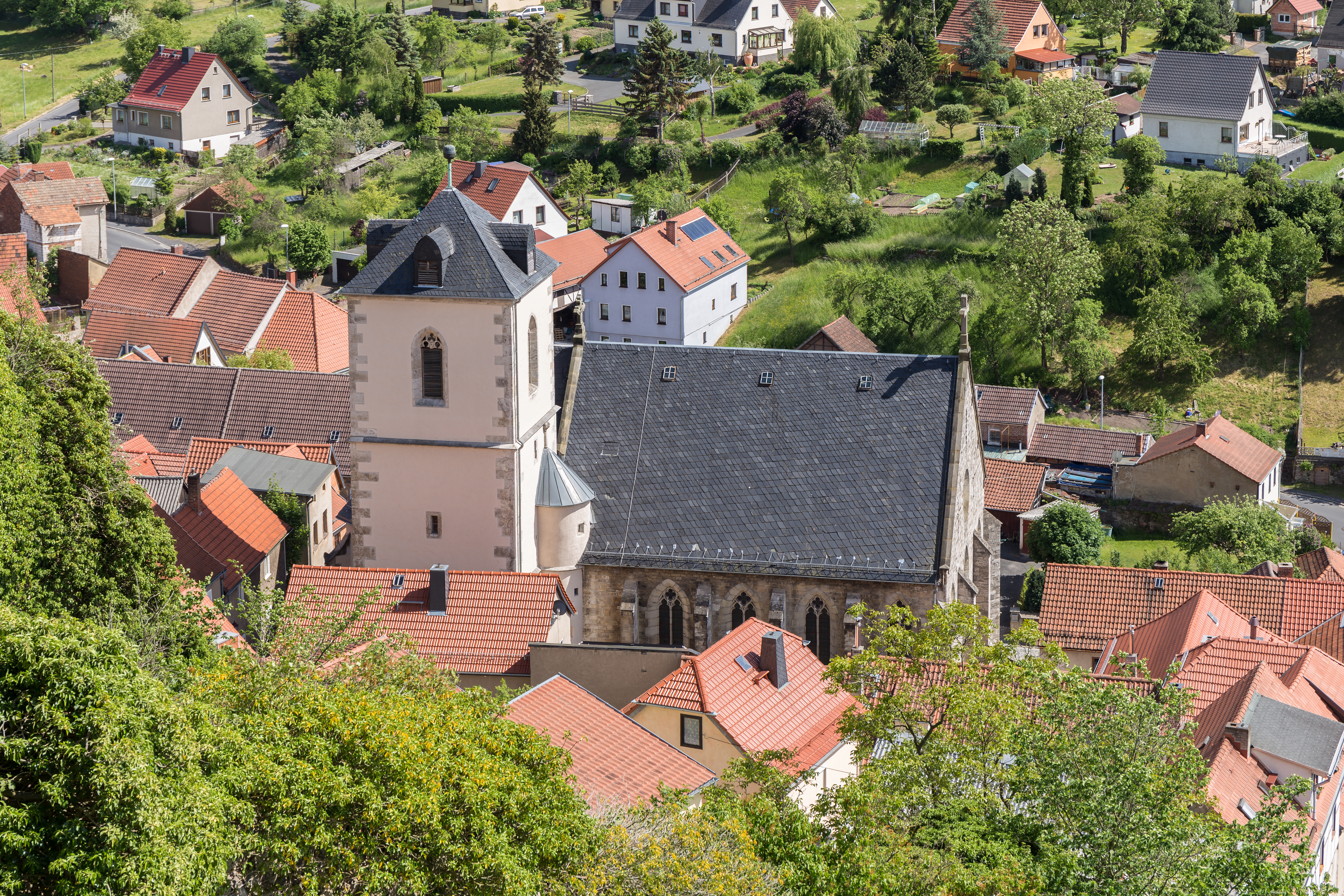 The Evangelical Church St. Margaret is located in the Thuringian town Ranis. View from the castle Ranis.